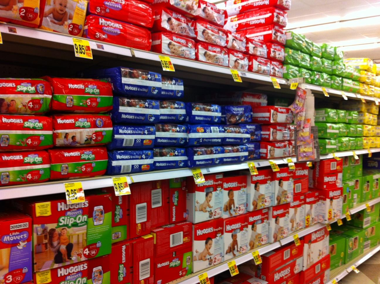 Disposable Huggies diapers at Kroger